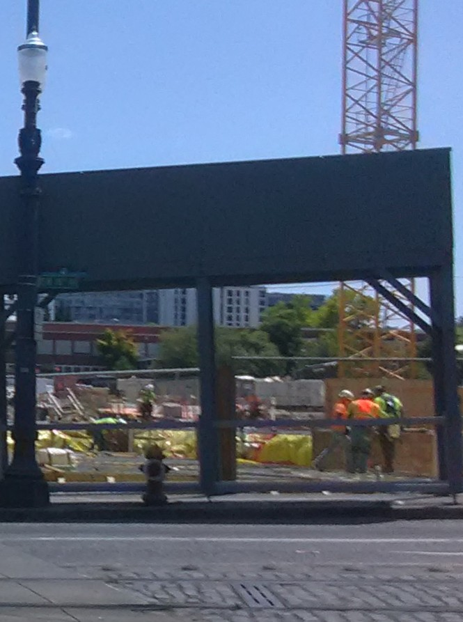 Hoffman Construction Lincoln High School construction site in July 2020